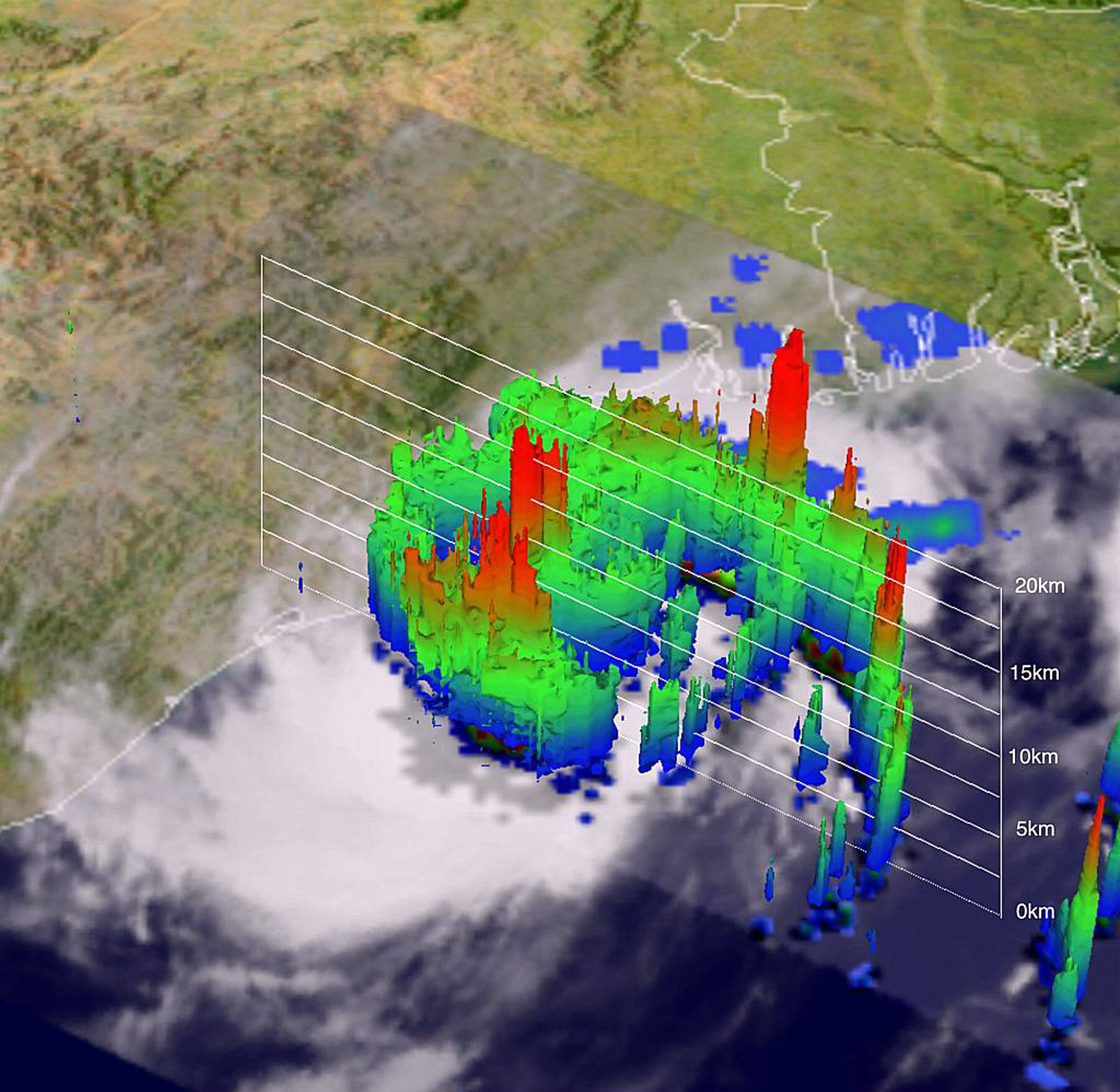 3D TRMM image of Cyclone Bijli at peak intensity